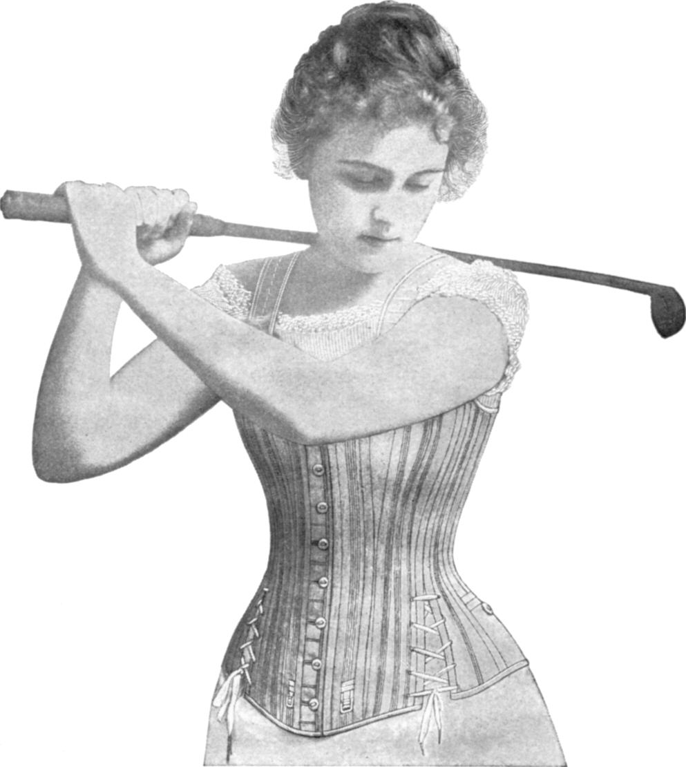 The Ladies' Home Journal September 1900 page 33